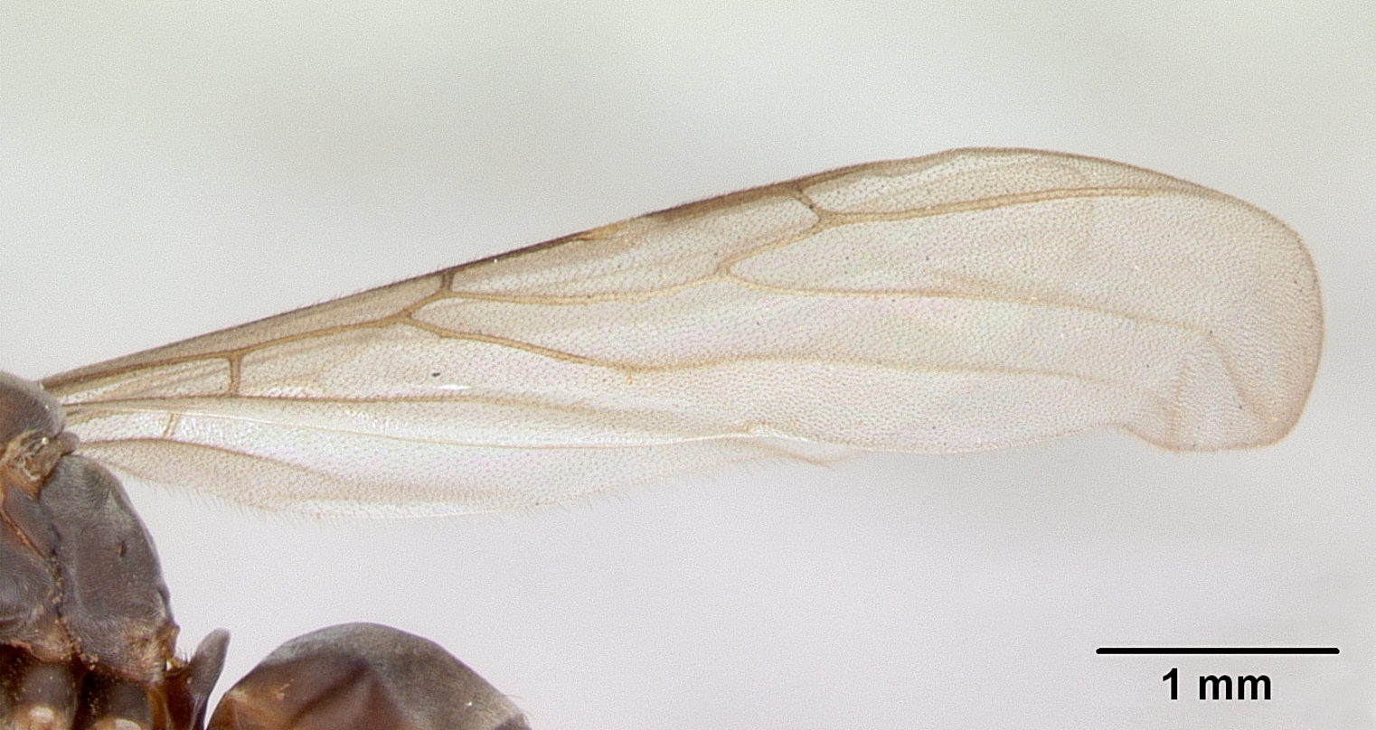 Profile view of ant Dorymyrmex brunneus specimen casent0173844.